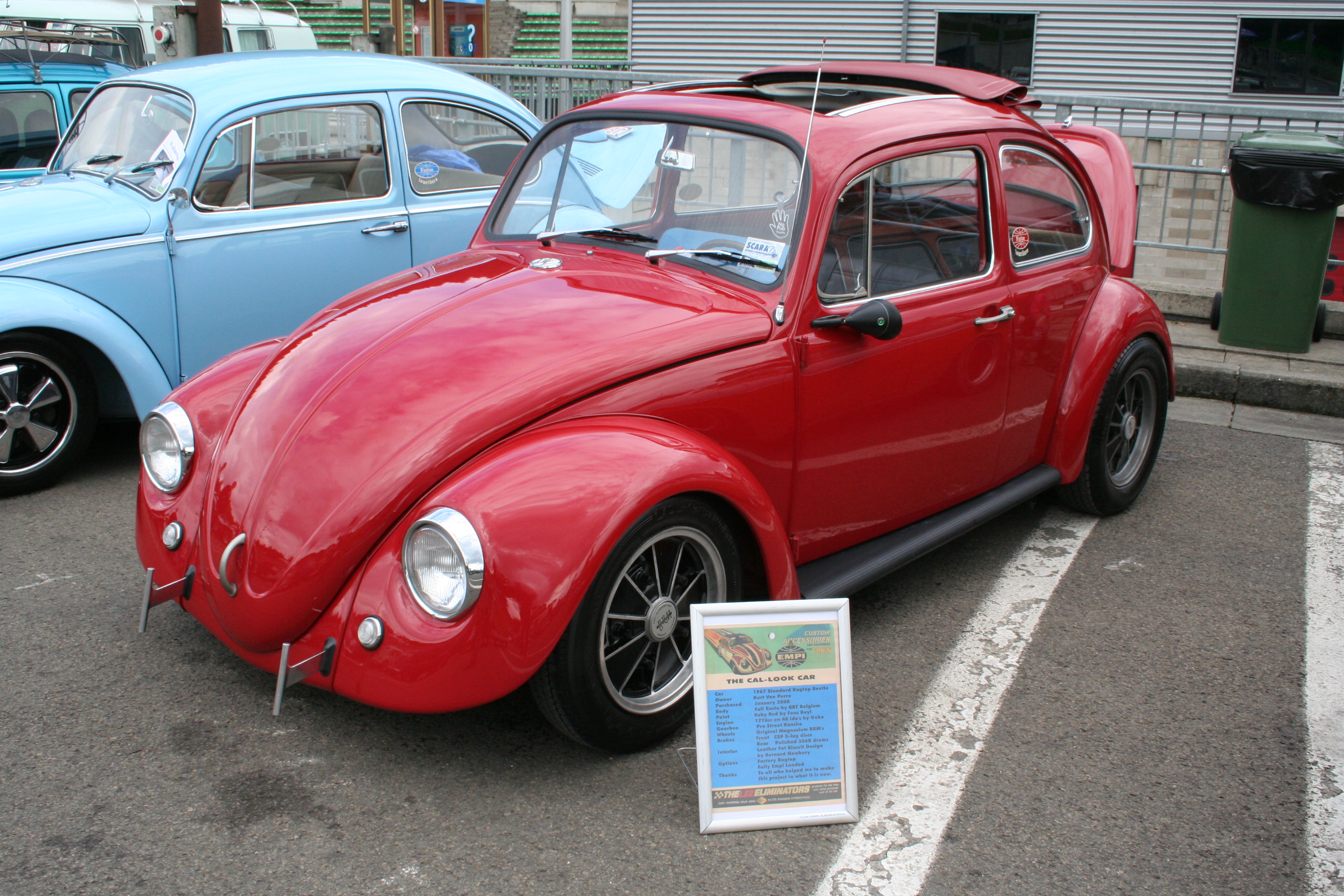 VW Beetle modified in 70's California Look style